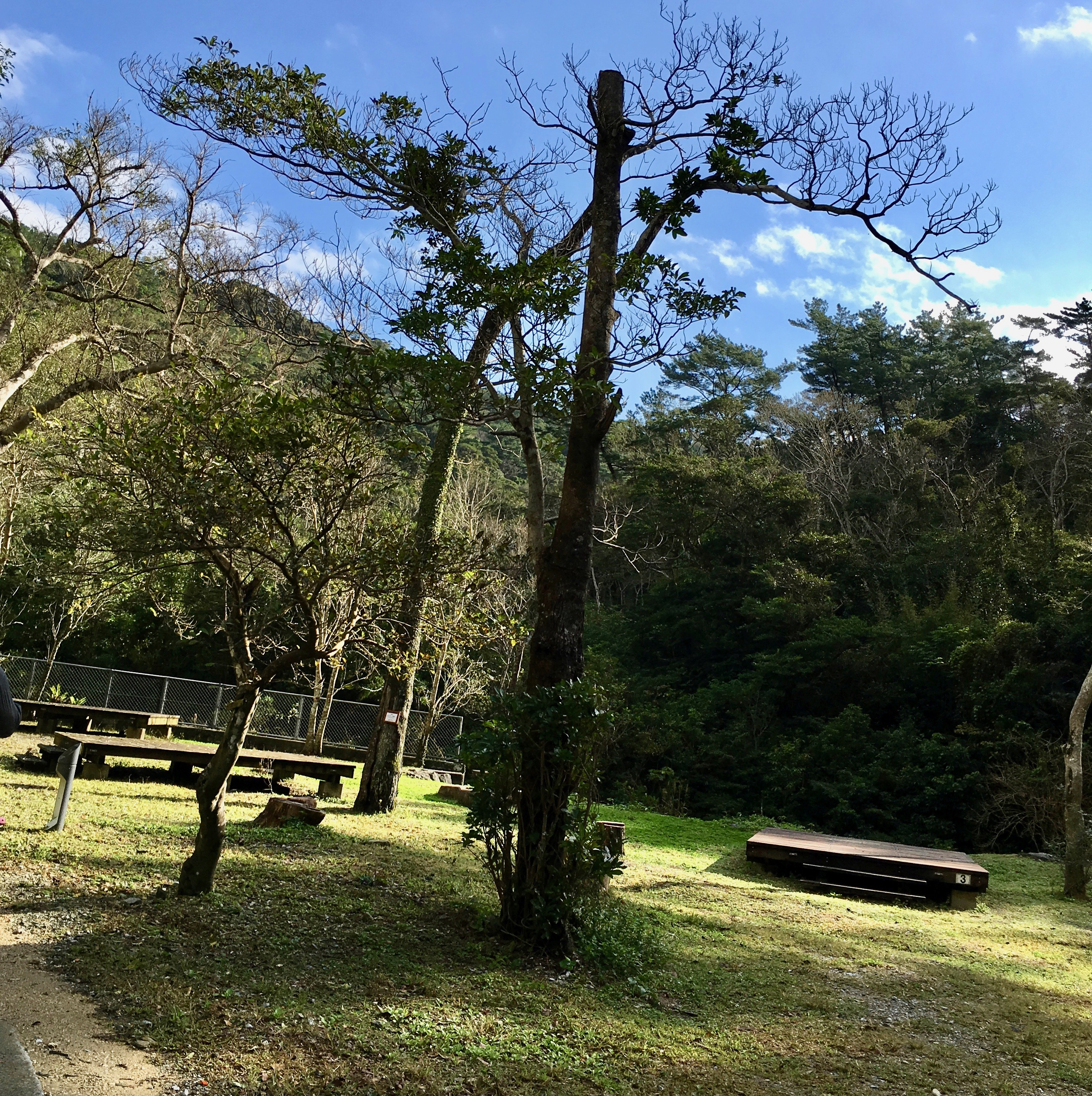 The platform is used as the foundation for your tent.